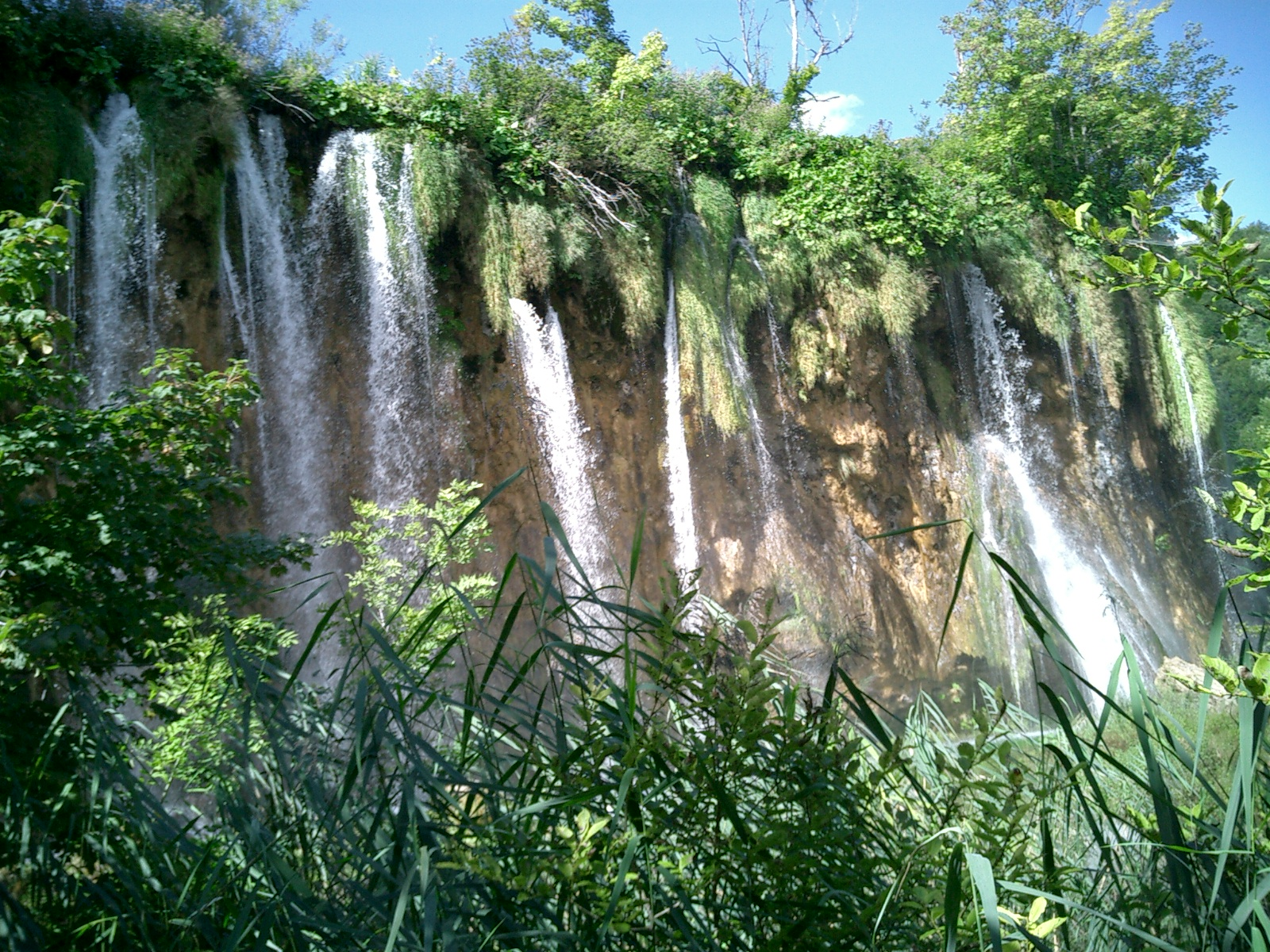 an image showing Plitvice Lakes waterfalls.